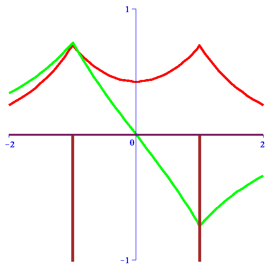 Symmetric (gerade) and Anti-symmetric (ungerade) wavefunctions for the Double-well Dirac delta function model with "internuclear" radius R = 2 units.